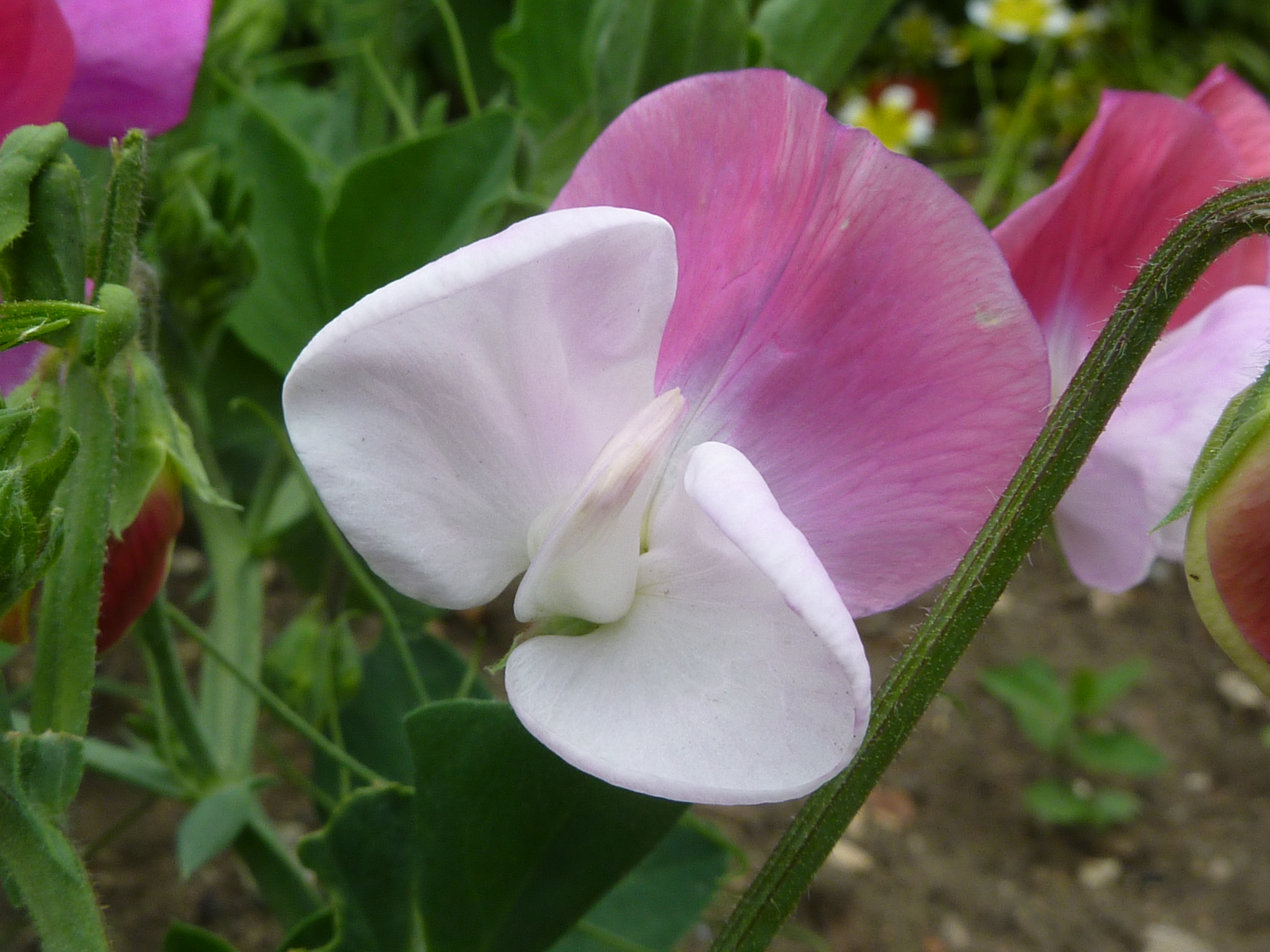 Taken in the Cambridge University Botanic Garden